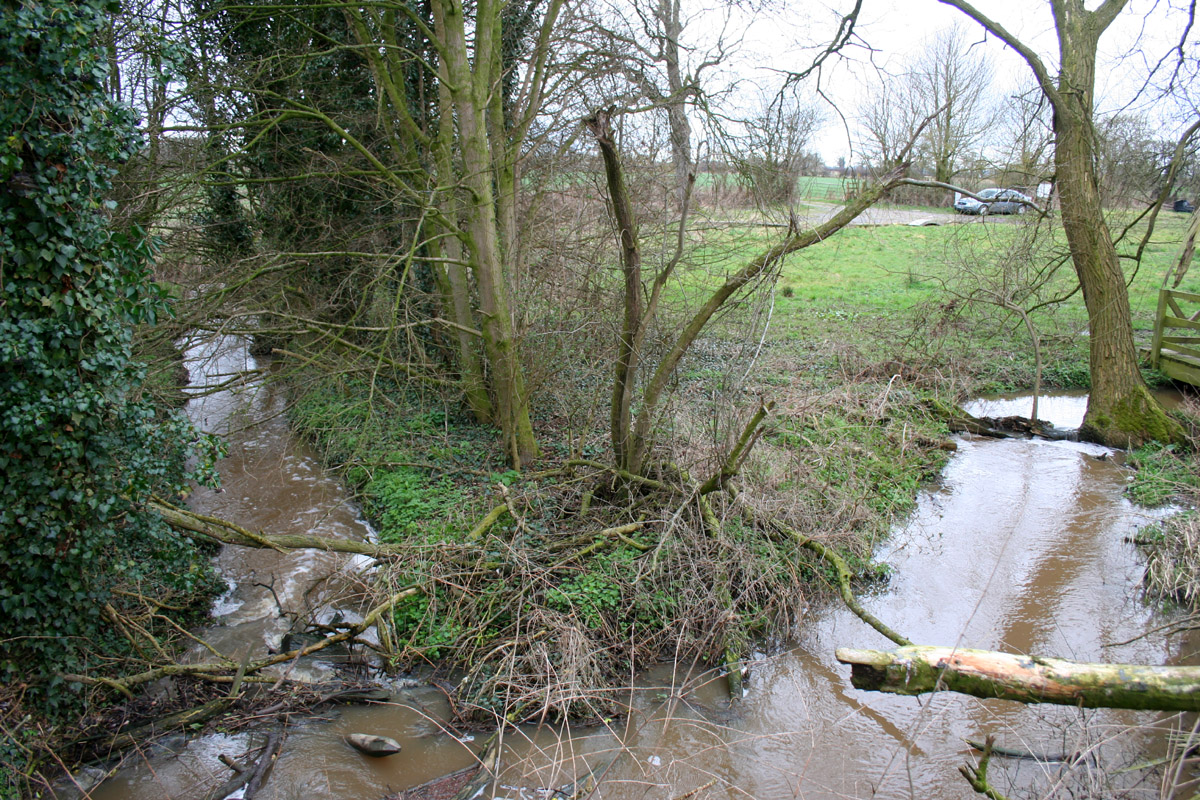 Unnamed brook on boundary between Poole and Aston juxta Mondrum civil parishes, north of Poole Old Hall